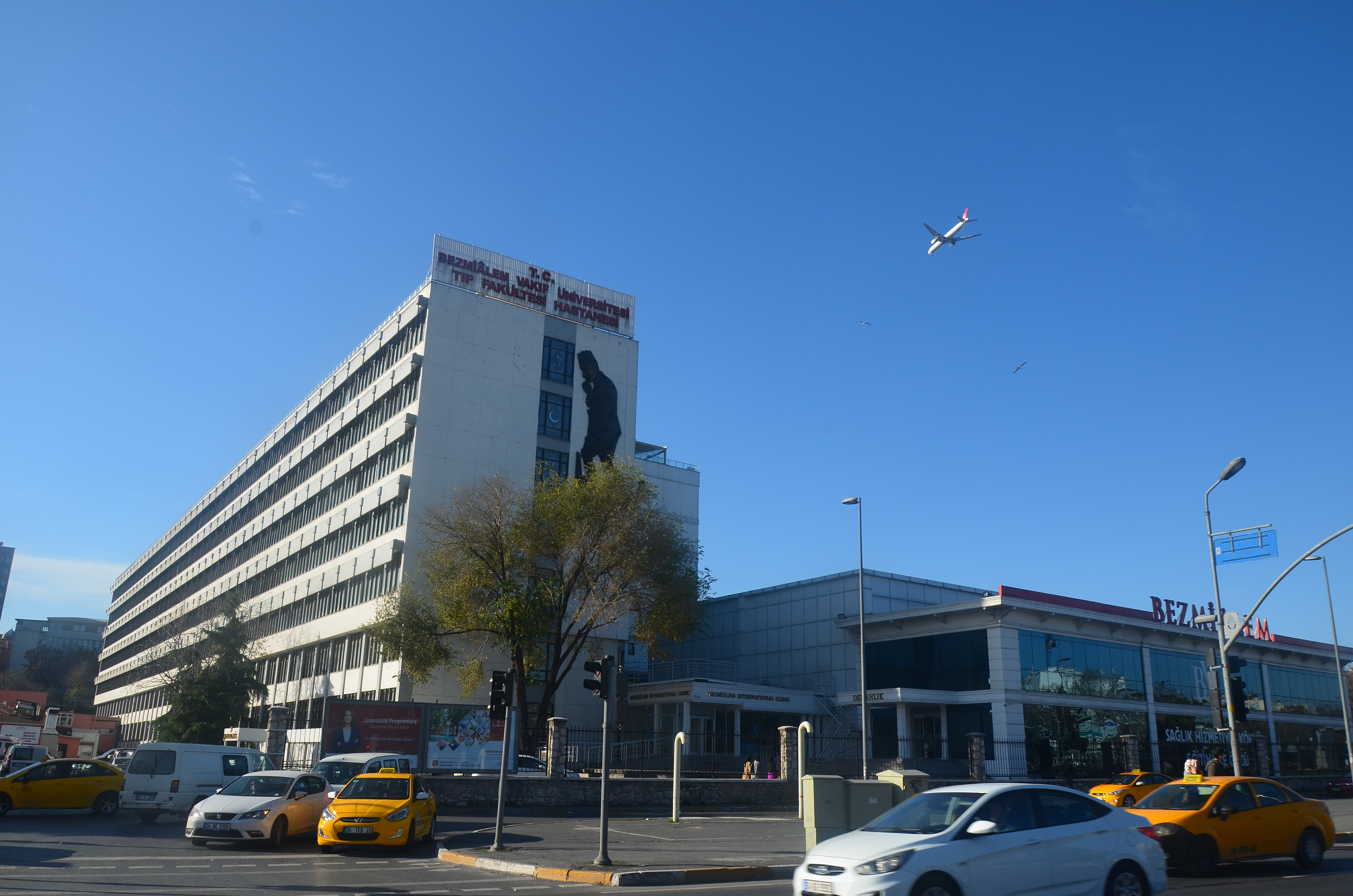 Bezmiâlem Foundation University Hospital on the Adnan Menderes Blv in Fatih, Istanbul, Turkey.